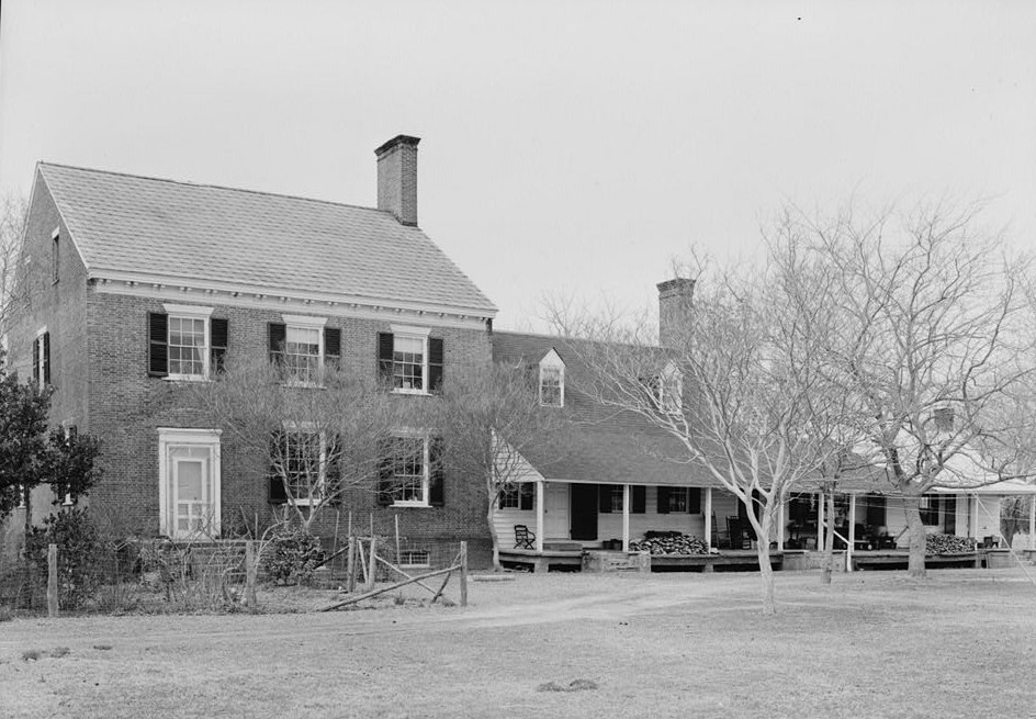 Brownsville, State Routes 608 & 600 vicinity, Nassawadox vicinity (Northampton County, Virginia) cropped HABS VA,66-NASA.V,6-1 This file comes from the Historic American Buildings Survey (HABS), Historic American Engineering Record (HAER) or Historic American Landscapes Survey (HALS). These are programs of the National Park Service established for the purpose of documenting historic places. Records consist of measured drawings, archival photographs, and written reports. When reusing please credit: Library of Congress, Prints & Photographs Division, VA-810 This tag does not indicate the copyright status of the attached work. A normal copyright tag is still required. See Commons:Licensing. This work is in the public domain in the United States because it is a work prepared by an officer or employee of the United States Government as part of that person’s official duties under the terms of Title 17, Chapter 1, Section 105 of the US Code. Note: This only applies to original works of the Federal Government and not to the work of any individual U.S. state, territory, commonwealth, county, municipality, or any other subdivision. This template also does not apply to postage stamp designs published by the United States Postal Service since 1978. (See § 313.6(C)(1) of Compendium of U.S. Copyright Office Practices). It also does not apply to certain US coins; see The US Mint Terms of Use. This file has been identified as being free of known restrictions under copyright law, including all related and neighboring rights. Object location37° 28′ 04″ N, 75° 49′ 35″ W